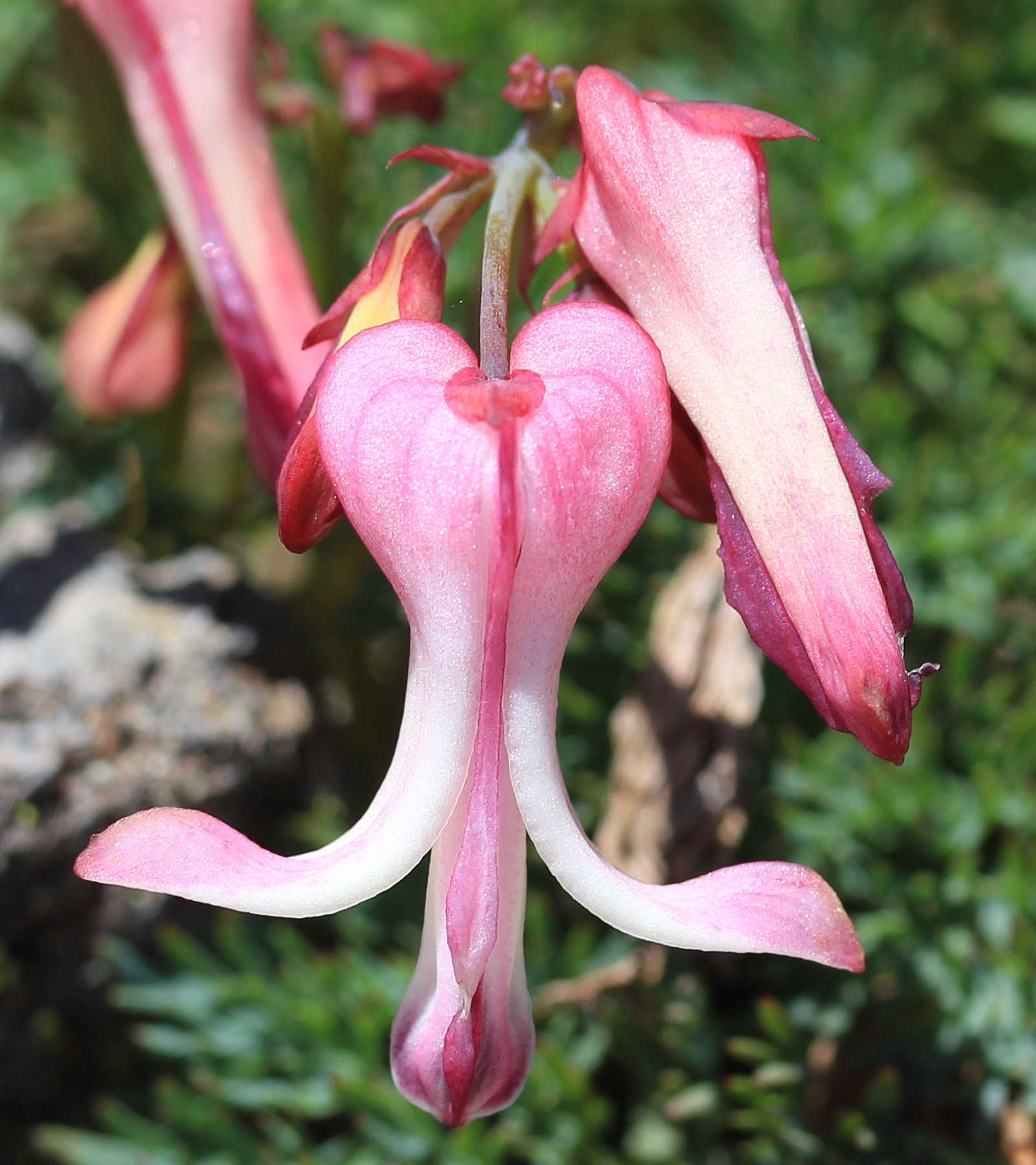 Folwer of Dicentra peregrina in Mount Ontake, Nagano and Gifu pref., Japan.